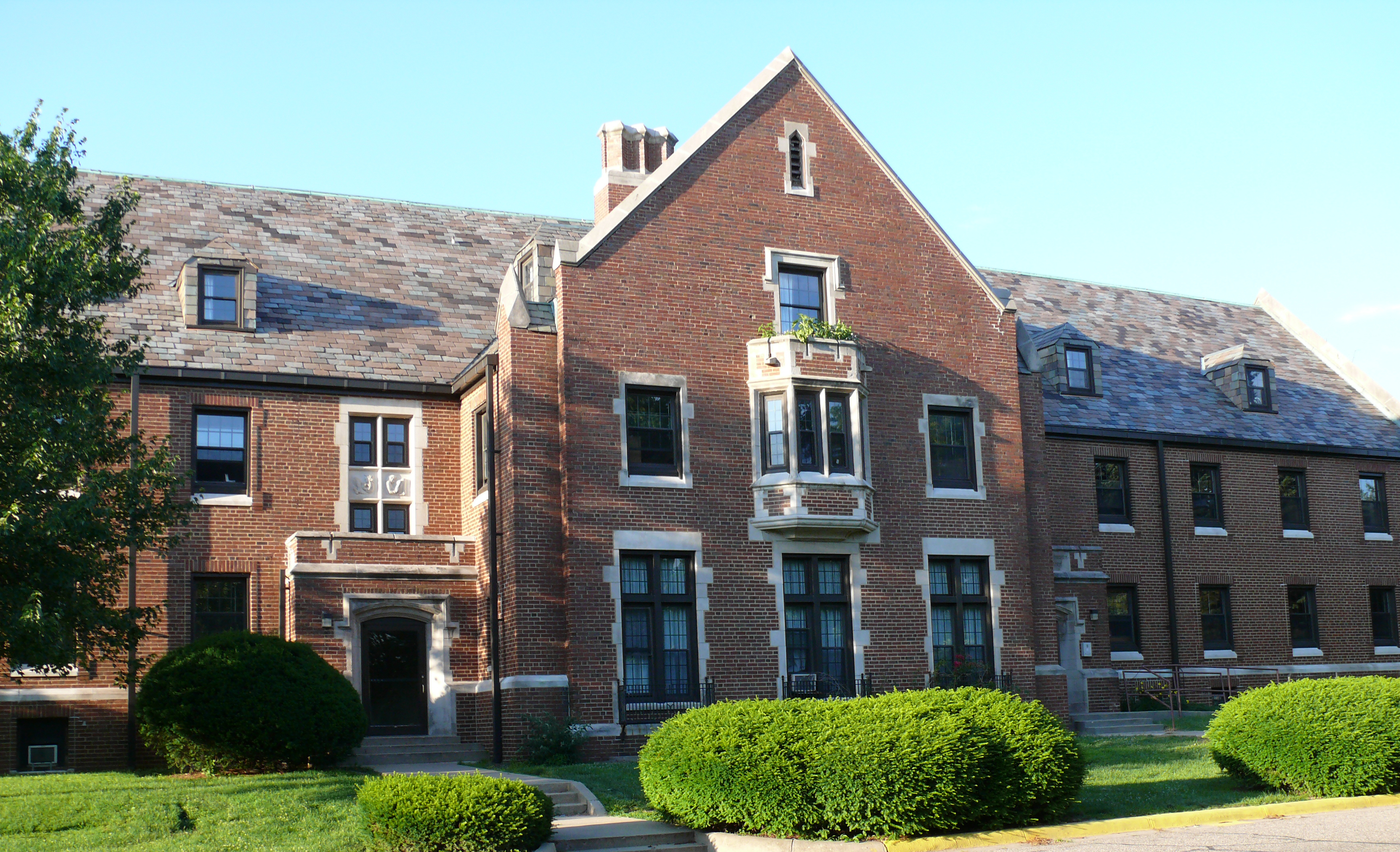 Deming Hall at Rose-Hulman Institute of Technology.